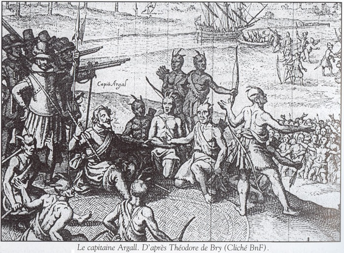 The Chickahominy become "New Englishmen"